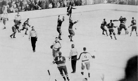 1960 Winter Olympics, Squaw Valley. US - Russia ice hockey, final buzzer of the game won by the US 3 to 2.